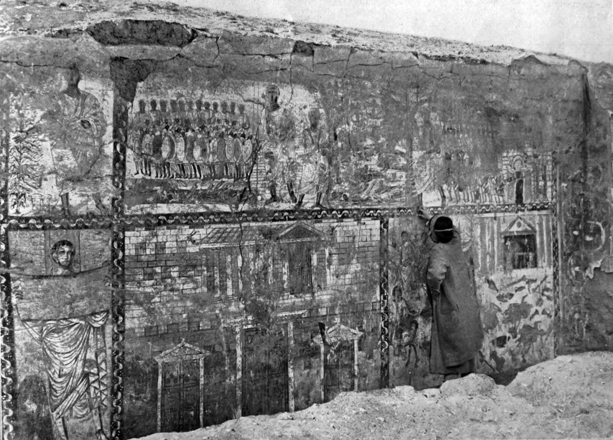 Excavation of the Dura Europos synagogue paintings in 1932-1933 : the West Wall.